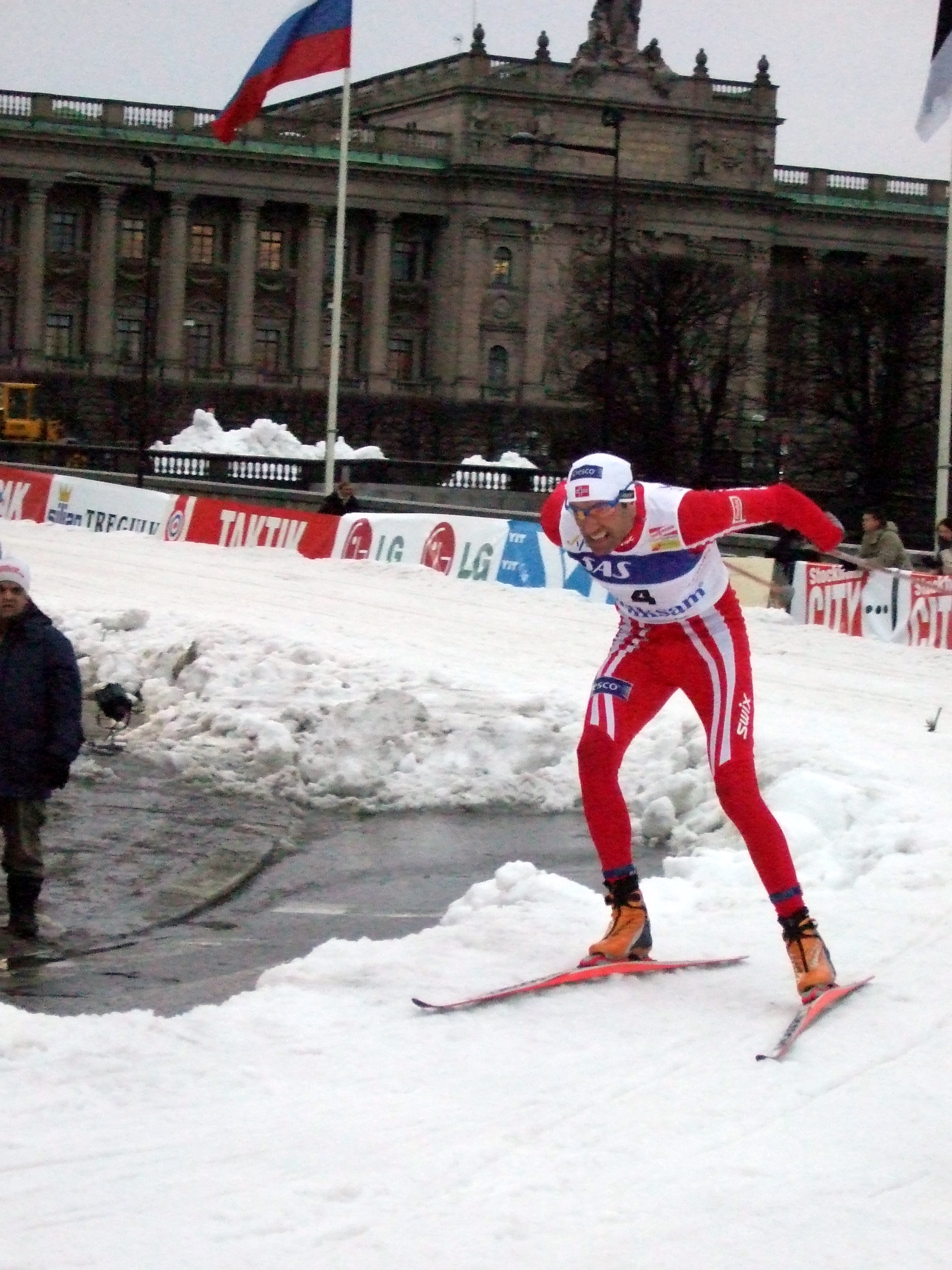 Odd-Björn Hjelmeset at the Royal Castle World Cup sprint in Stockholm, Sweden